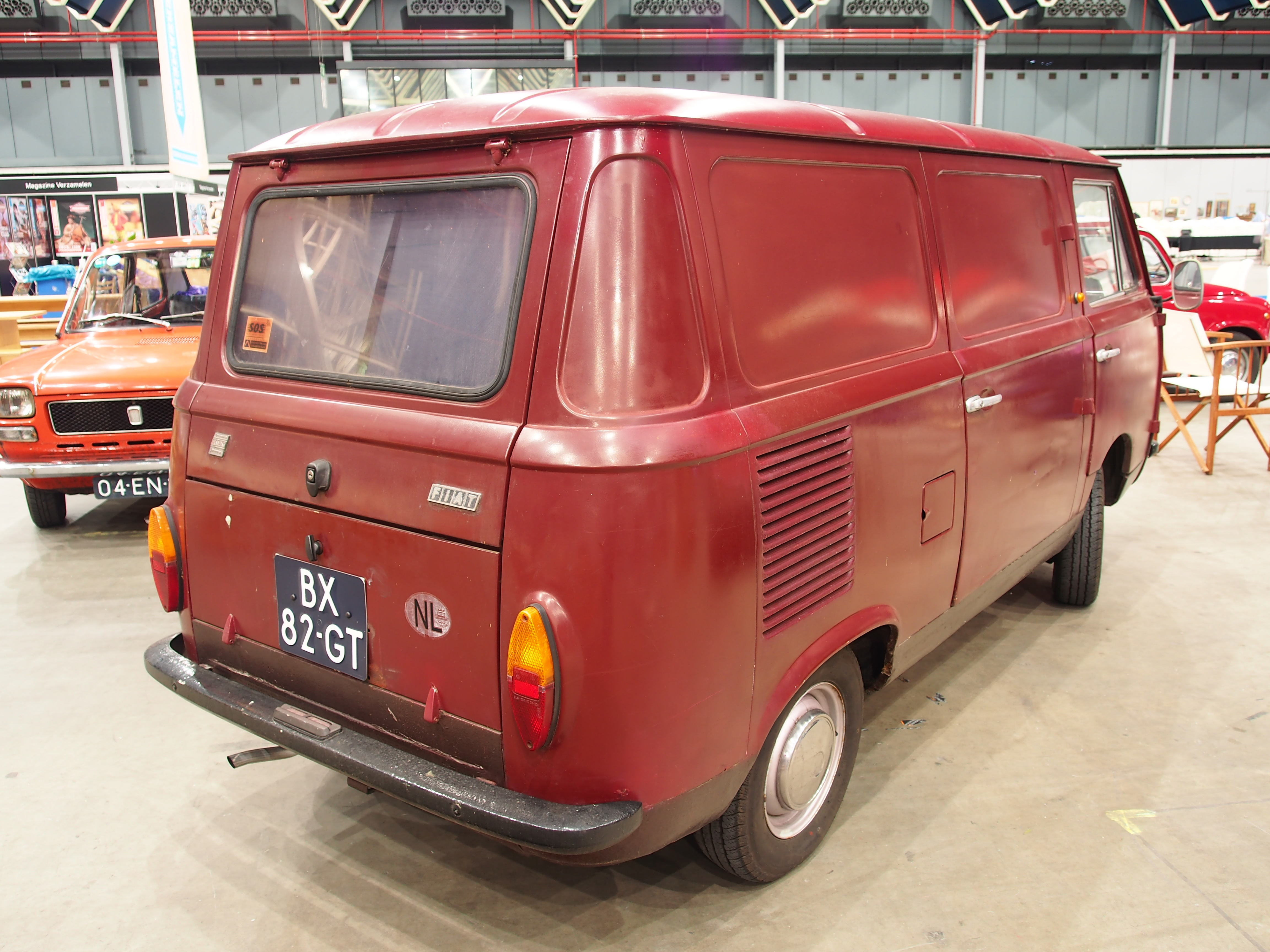 Fiat 850 photographed in Utrecht.